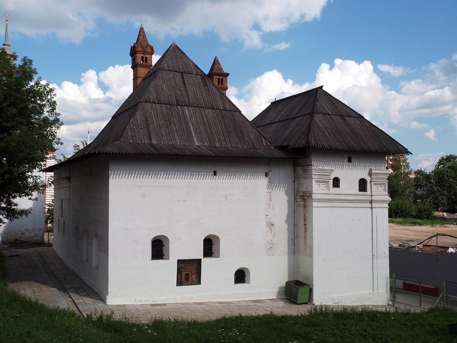 Old English Court in Moscow (4, Varvarka Street). 16th-17th centuries.